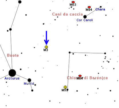 Map of M3